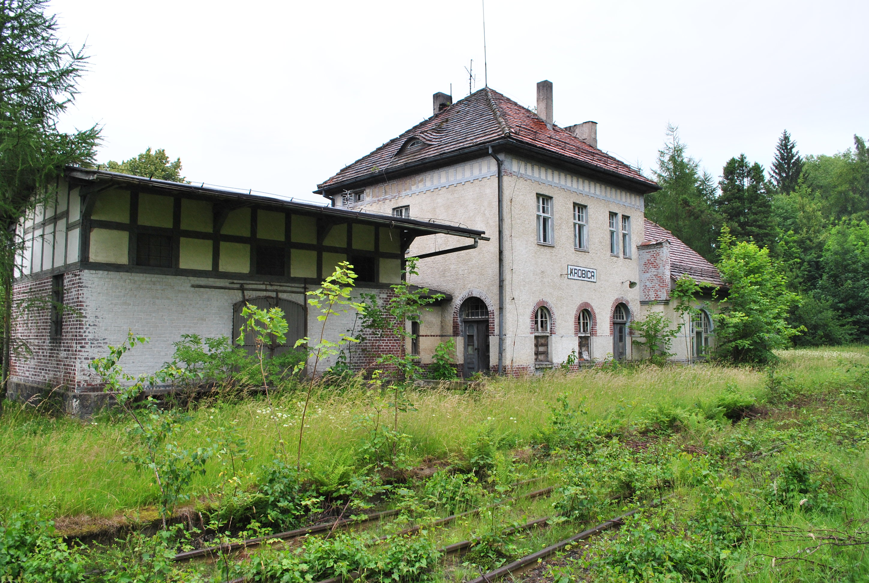 Budynek dworcowy wraz z magazynem na przystanku Krobica.